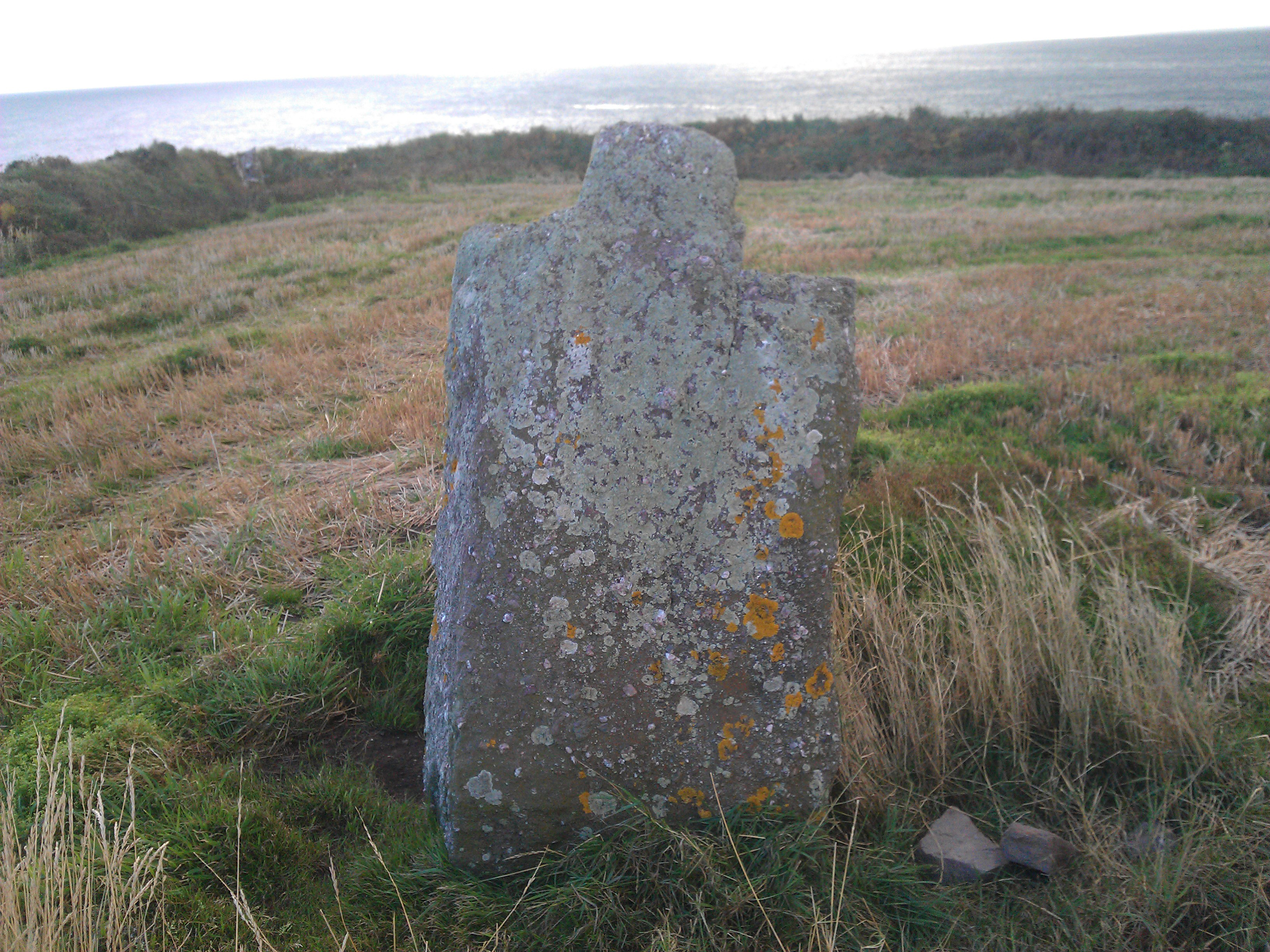 The White Lady standing stone in DunmoreEast Waterford